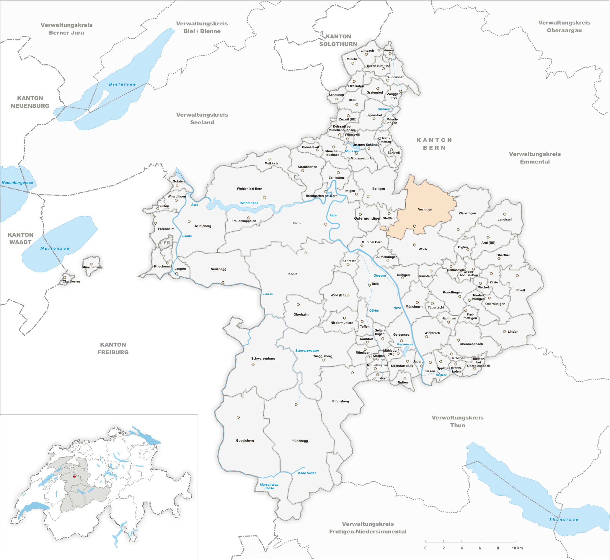 Municipality Vechigen